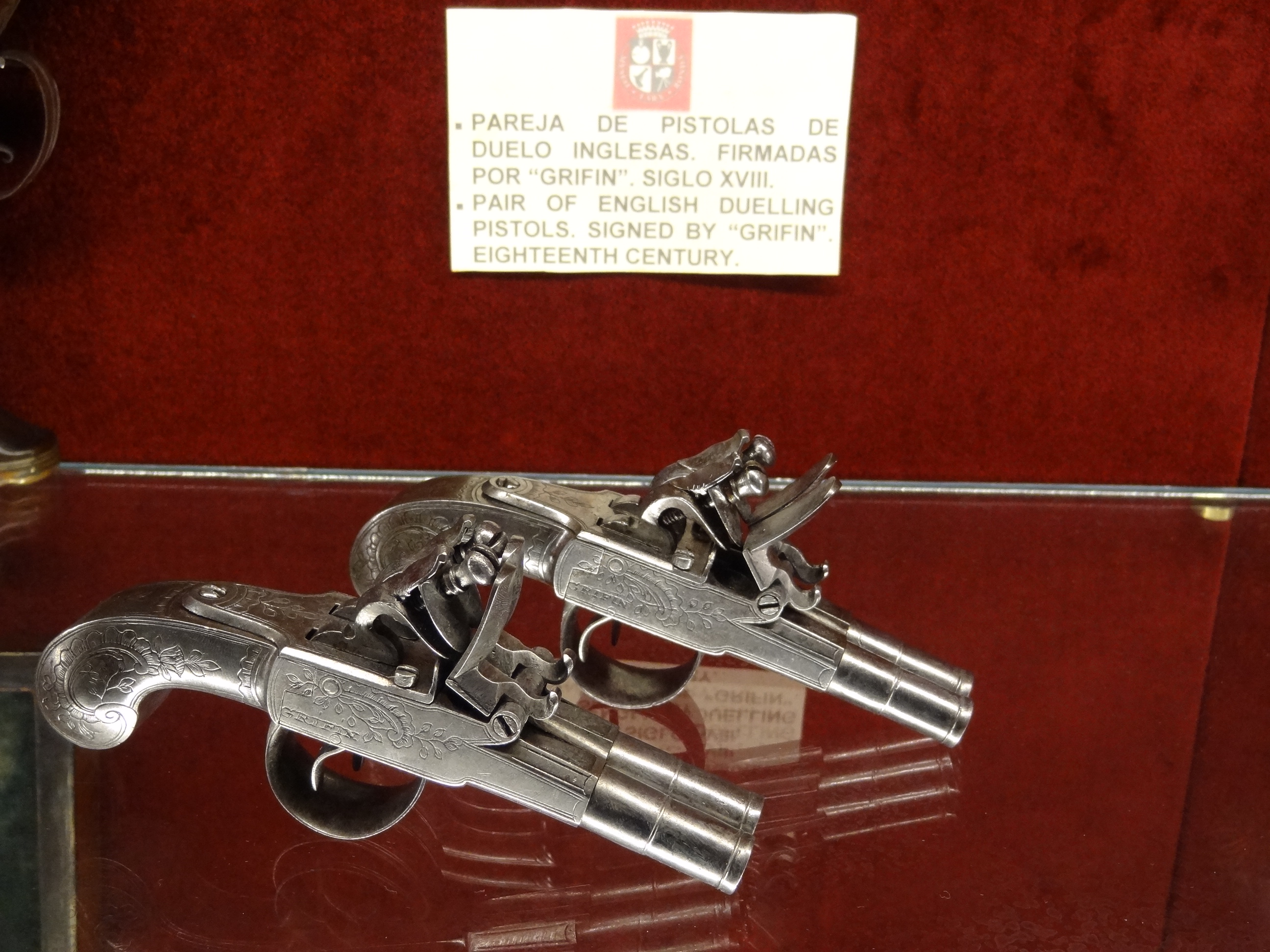 Lara Museum, Ronda in Spain, 2012-05.